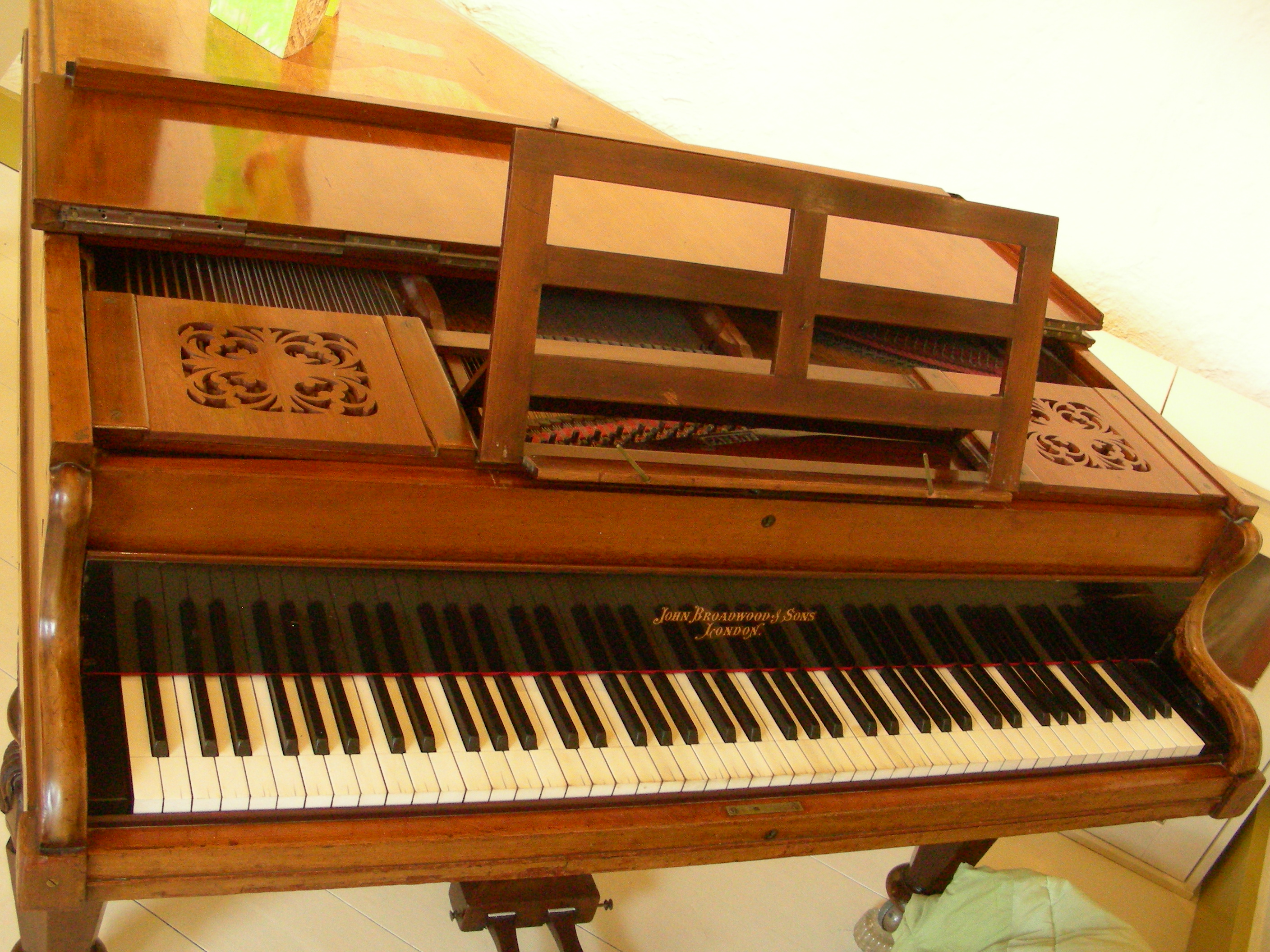 Broadwood & sons Grand Piano ca 1840